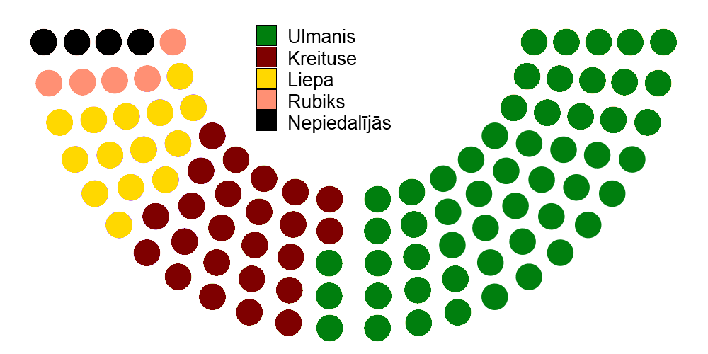 Graph showing the Saeima voting in Latvian presidential election, 1996.